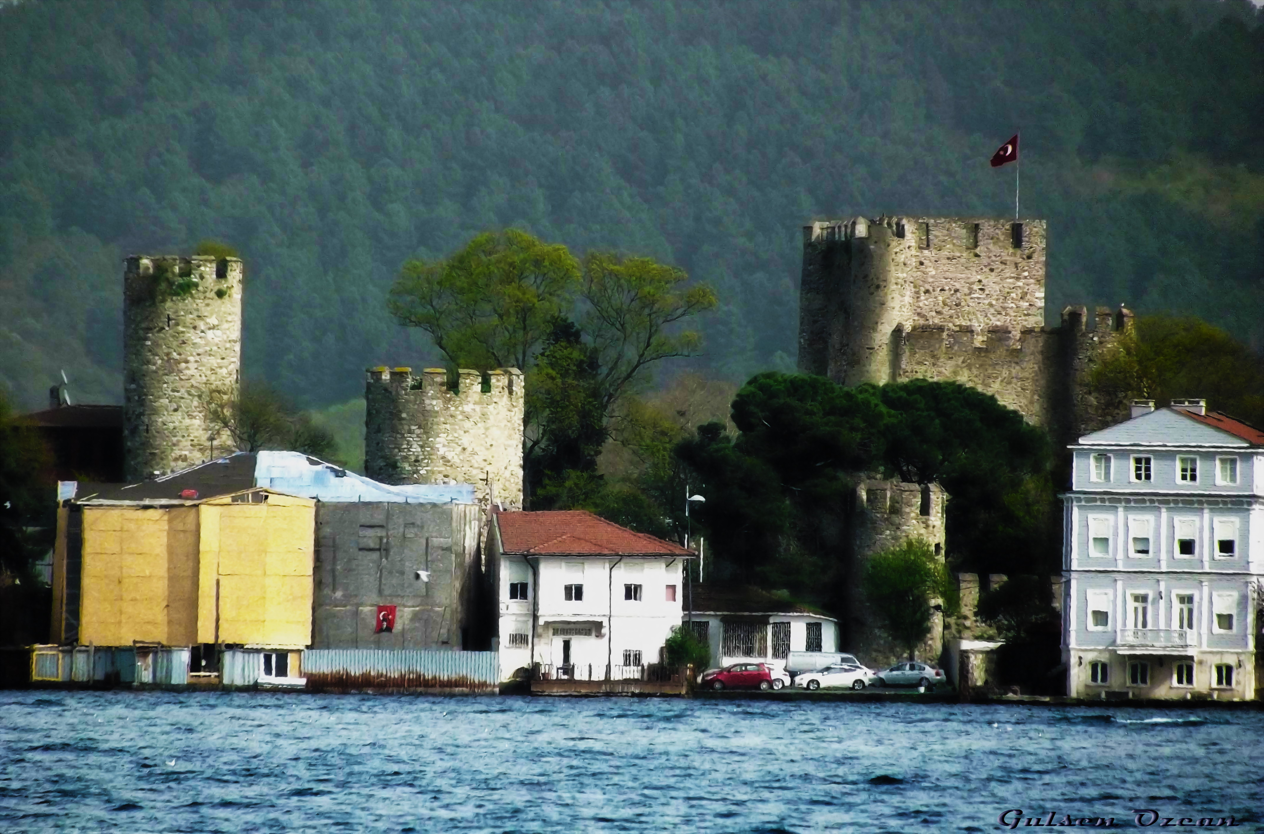 Anadolu Hisarı it is name. I taken it while i at bus and behind glass.I wished more bright but what i can do.This is my best what i could do. I have only one shot of there. The building one having repair. ISTANBUL